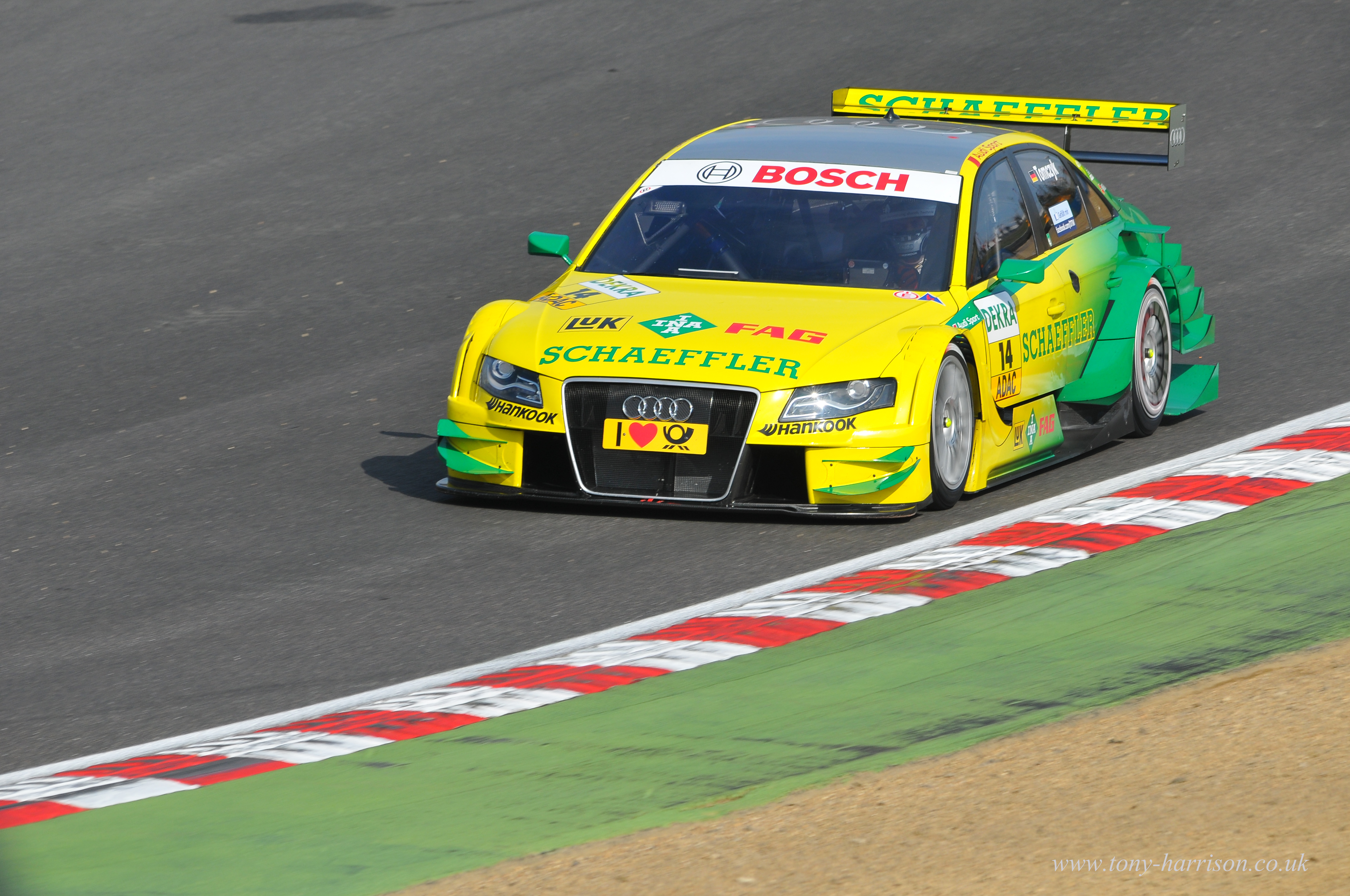 DTM Brands Hatch 2011